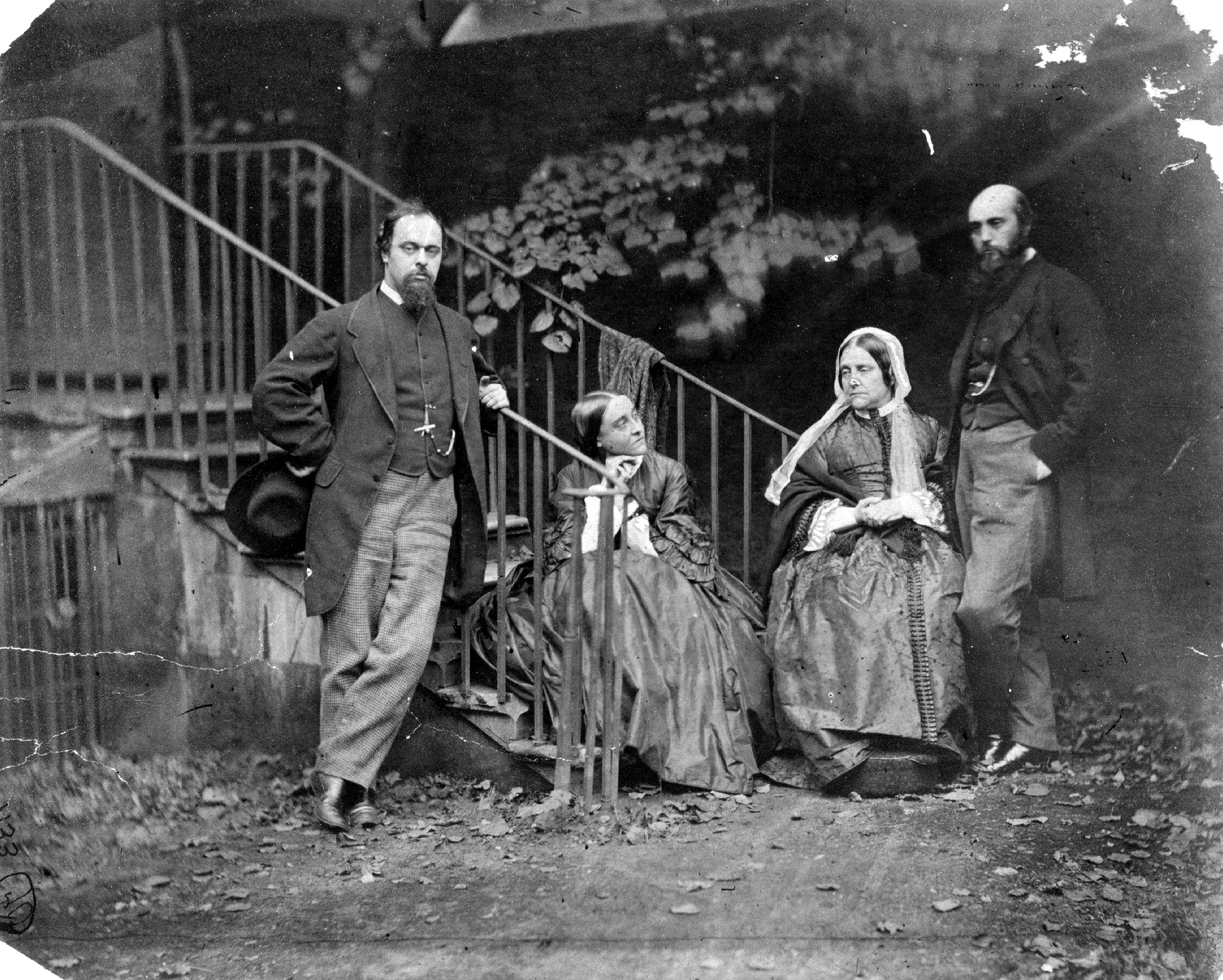 The Rossetti Family, by Lewis Carroll (Charles Lutwidge Dodgson) (died 1898) taken at 16 Cheyne Walk, Chelsea, given to the National Portrait Gallery, London in 1978. Probable image number assigned by Dodgson: 1133. From left to right: Dante Gabriel Rossetti standing, his sister Christina Rossetti sitting, his mother Frances Mary Lavinia Rossetti sitting and his brother William Michael Rossetti standing. All images in this batch have been confirmed as author died before 1939 according to the official death date listed by the NPG. Source of image number and date: Edward Wakeling's Photographic Register. This was first published in Carroll's biography by his nephew: Collingwood, Stuart Dodgson (1898) The Life and Letters of Lewis Carroll, London: T. Fisher Unwin, pp. p. 88 Retrieved on 22 December 2010.